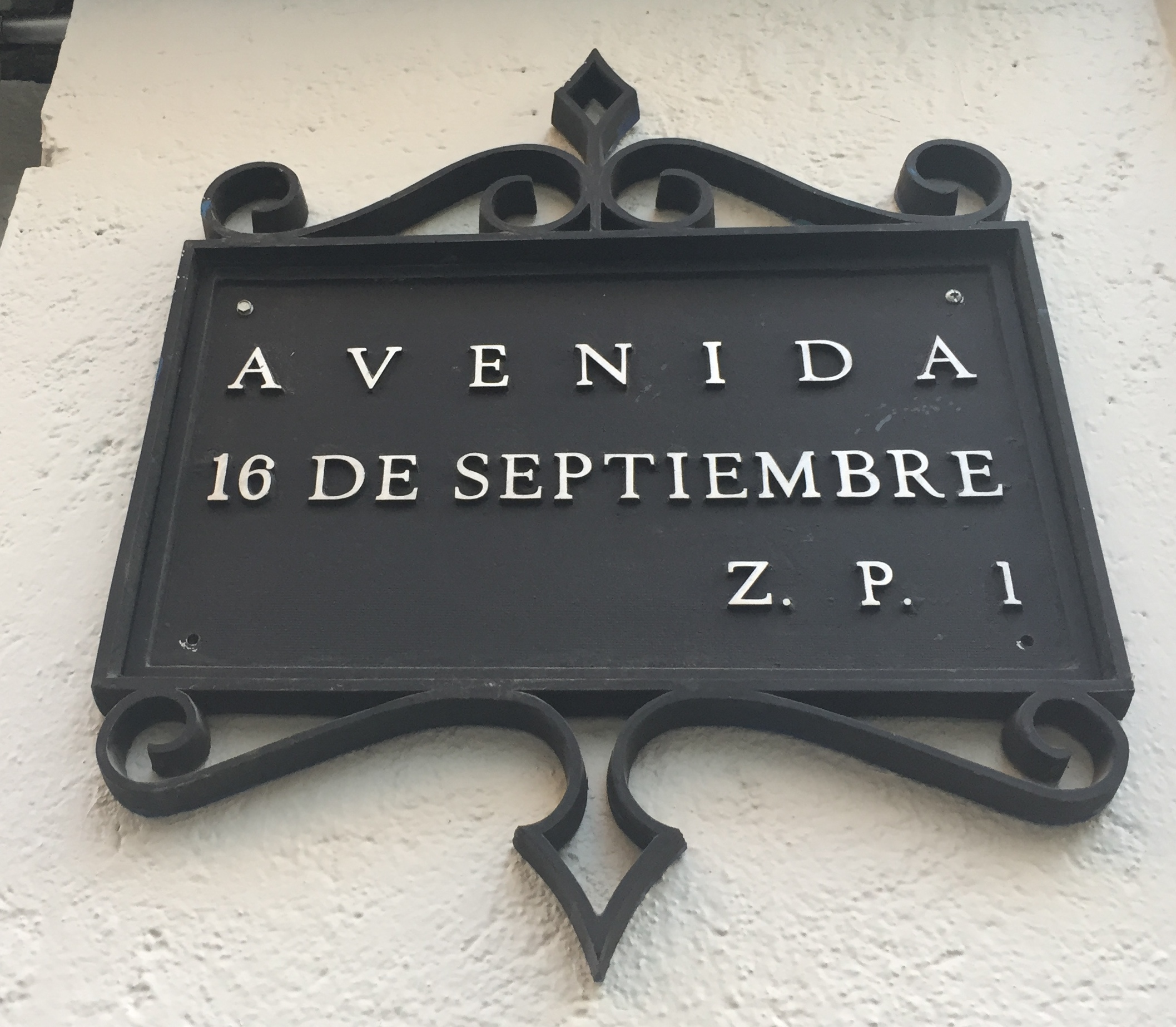 Street sign, Mexico city.